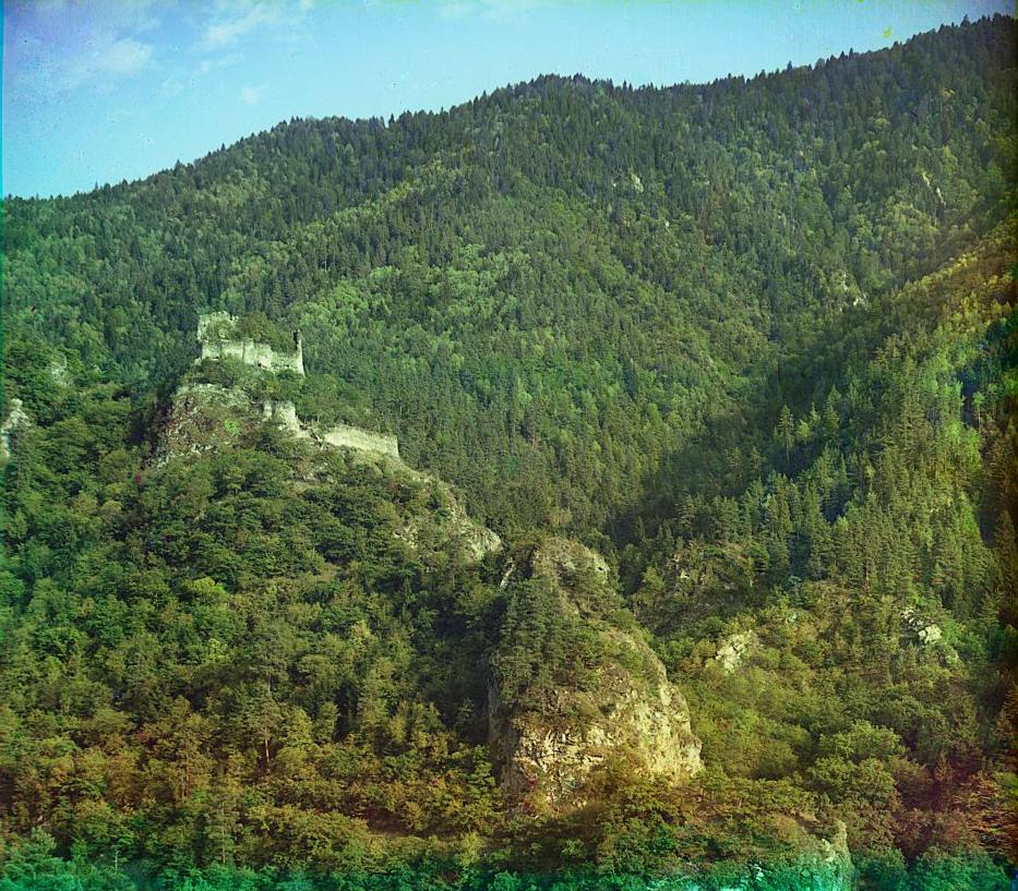 General view of the fortress from Likanskii palace